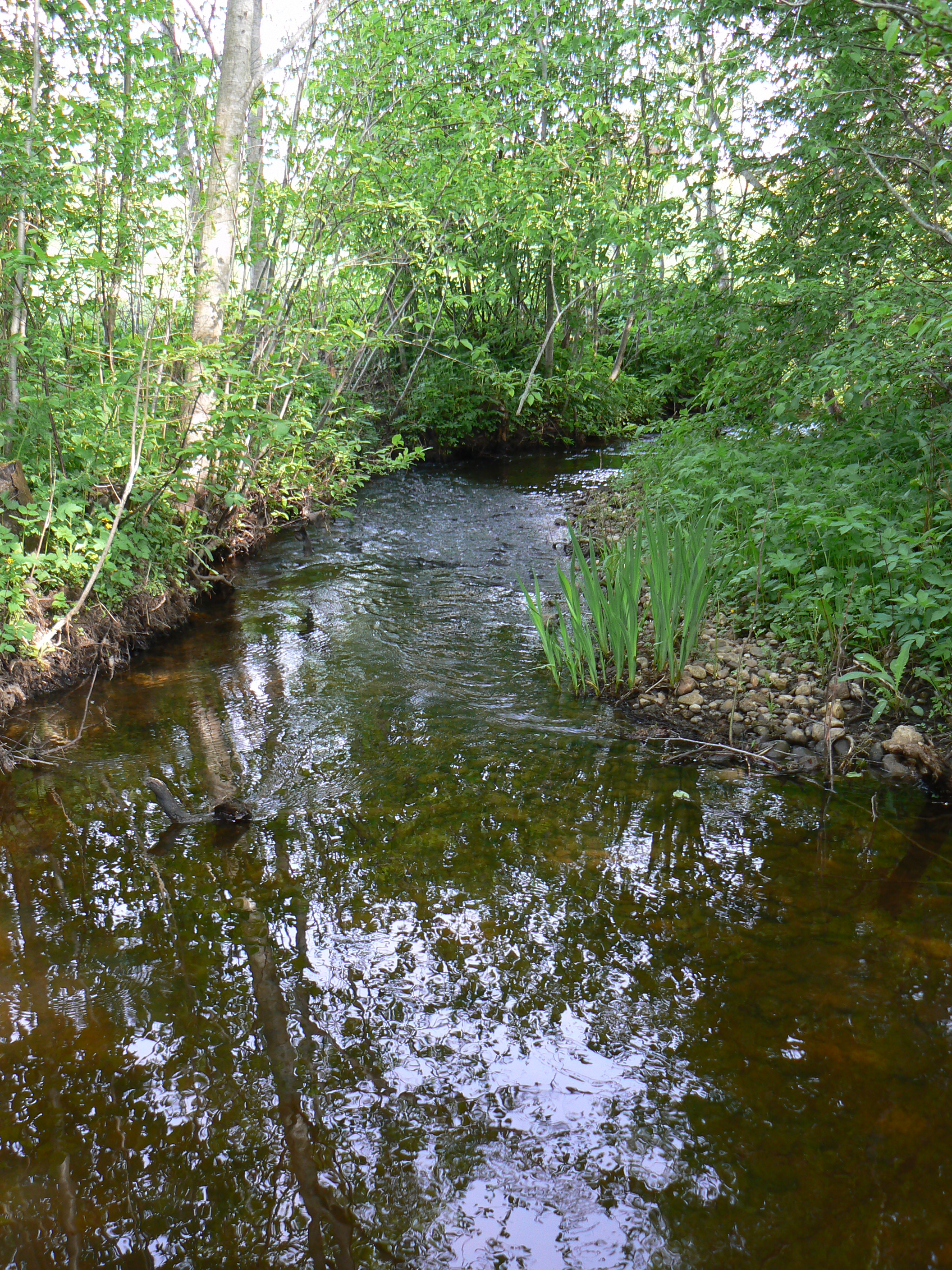 Varė in Varsėdžiai